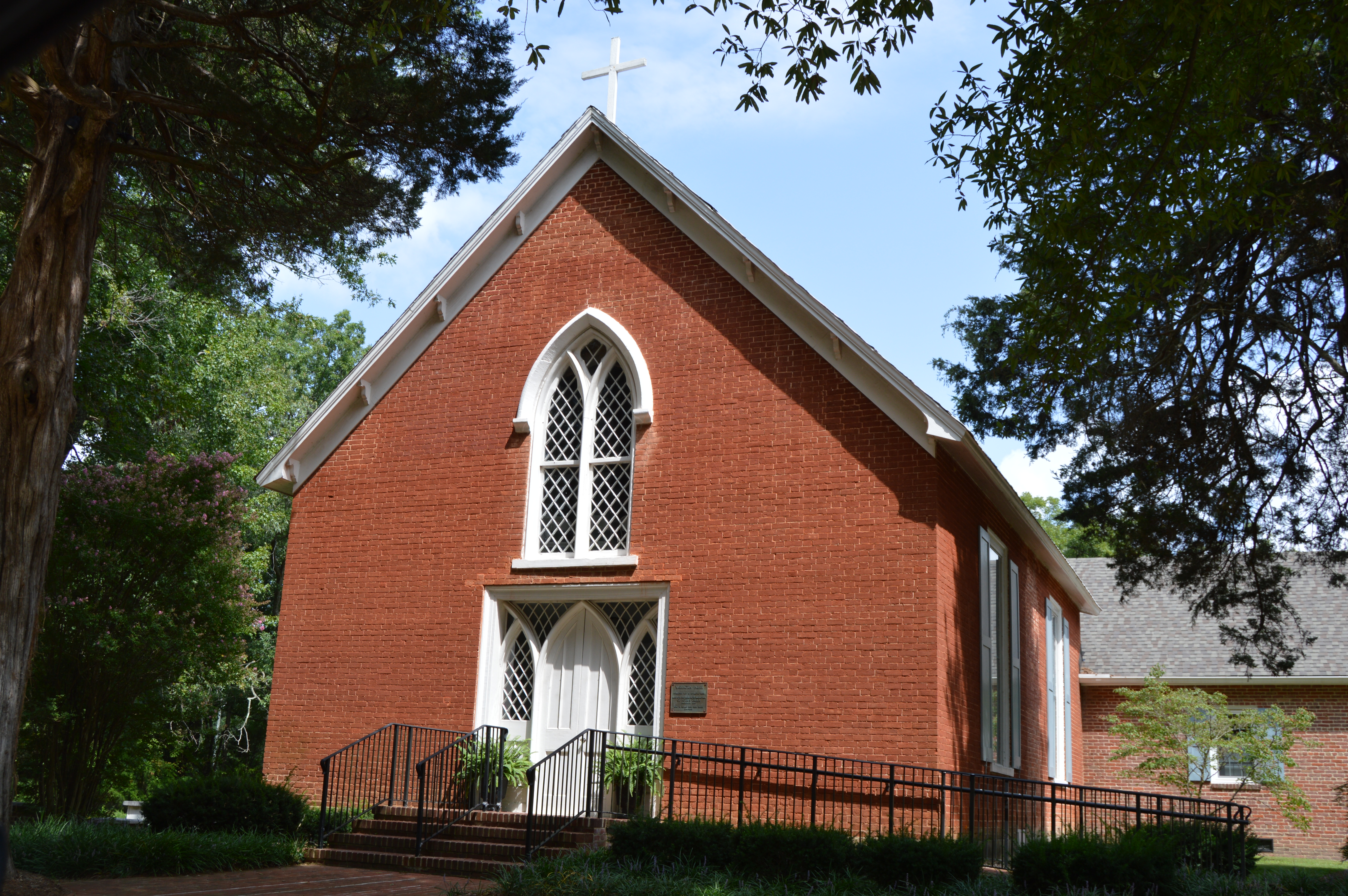 Front and southeastern side of St. Peter's Episcopal Church, located on State Route 3 at Oak Grove in Westmoreland County, Virginia, United States. Built in 1848, it is listed on the National Register of Historic Places.